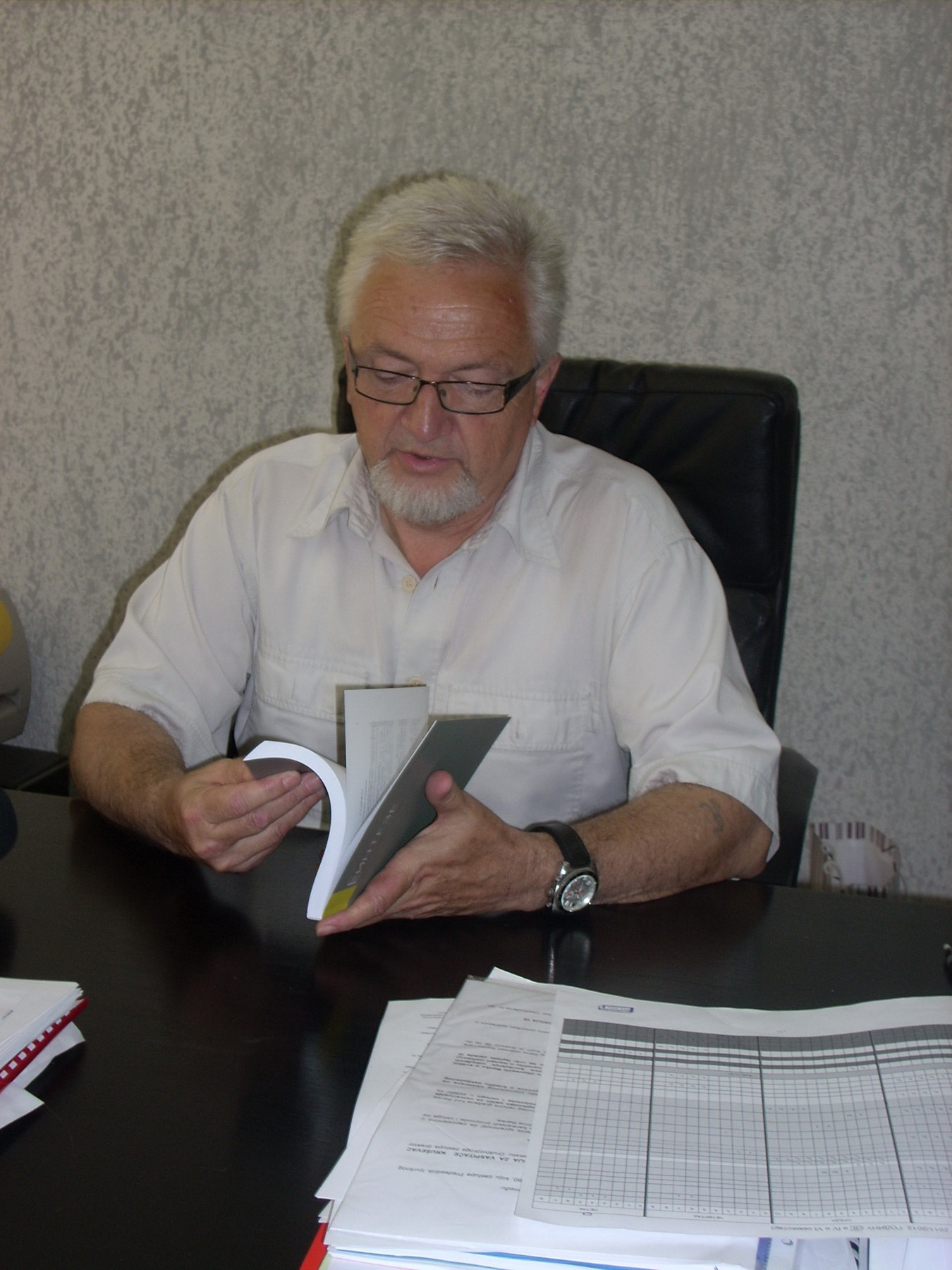 slika za naslovnu stranu 2